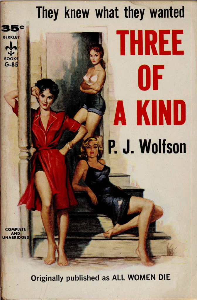 Cover of "Three Of A Kind" by P.J. Wolfson. Illustration by Charles Copeland.